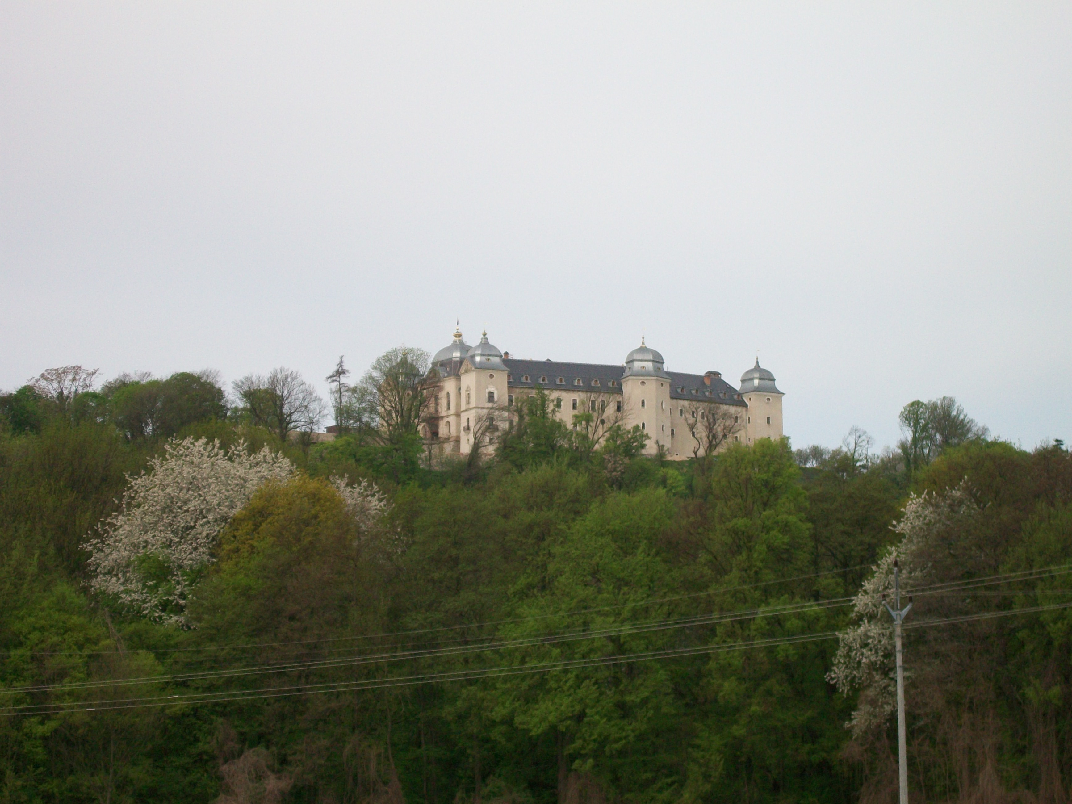 Renaissance-Baroque castle in Halič